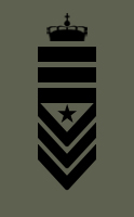 New version of the old Norwegian Army Rank Insignia OR-9